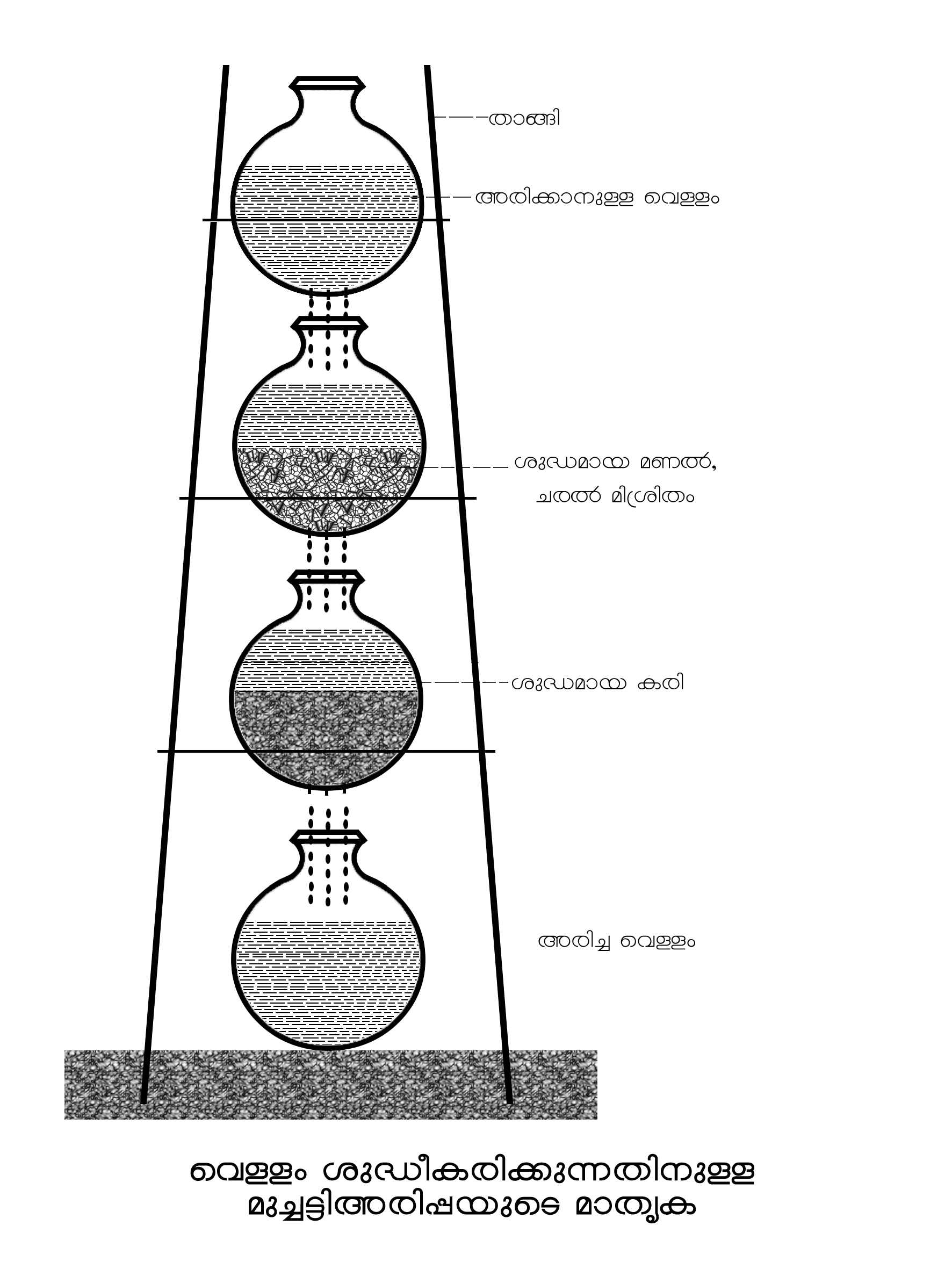 Tripod water filter using three earthen pots used in kerala